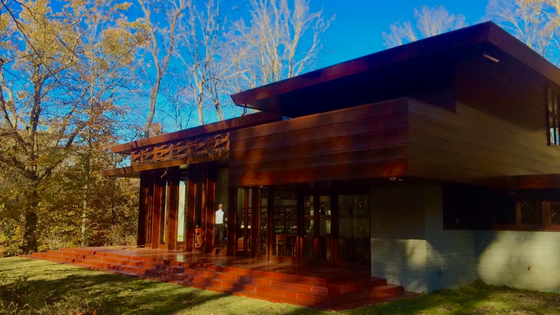 Exterior view of the Bachman-Wilson House located on the grounds of Crystal Bridges Museum in Bentonville, AR.